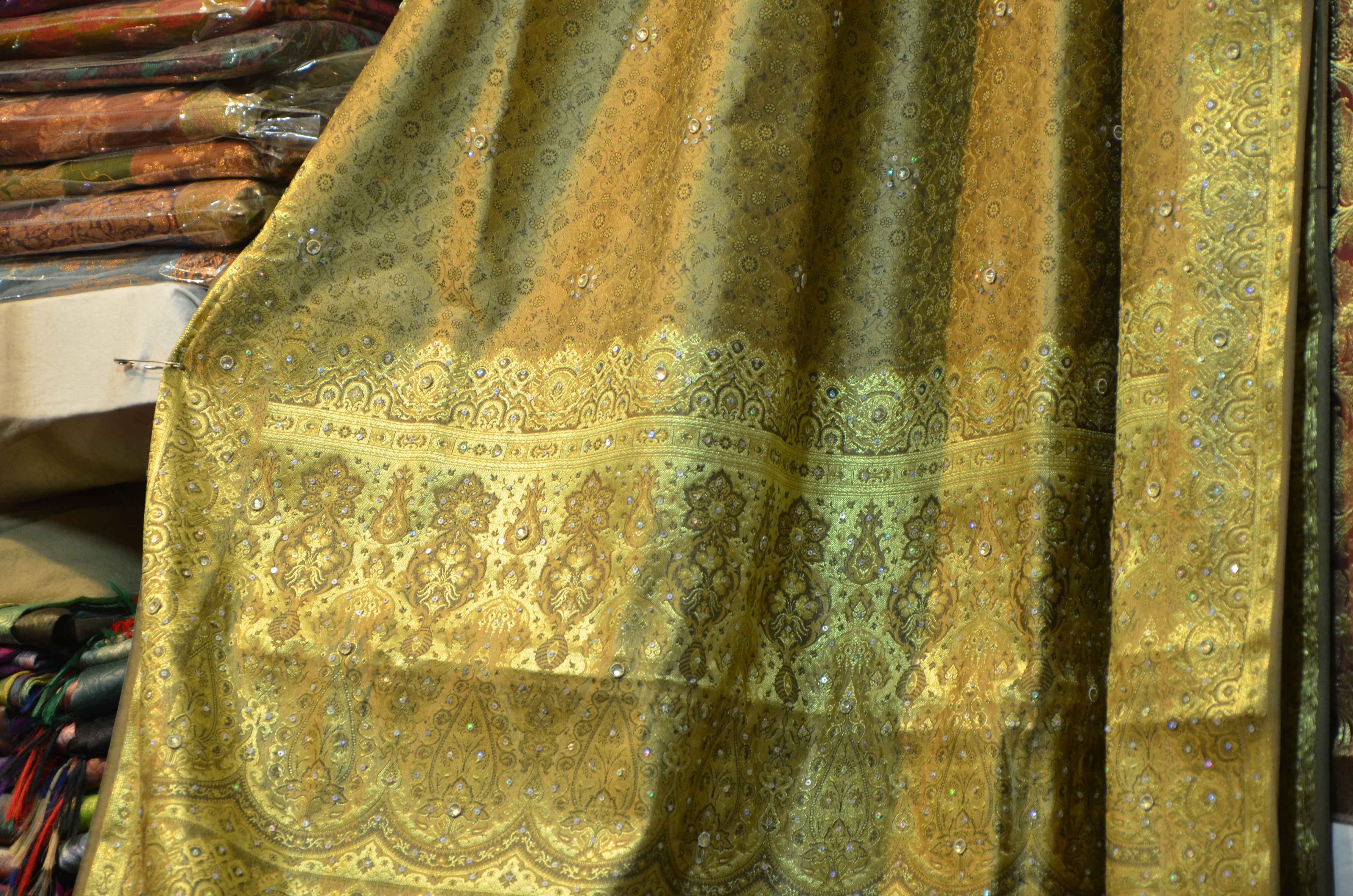 A saree on display at Dilli Haat, INA, Delhi.